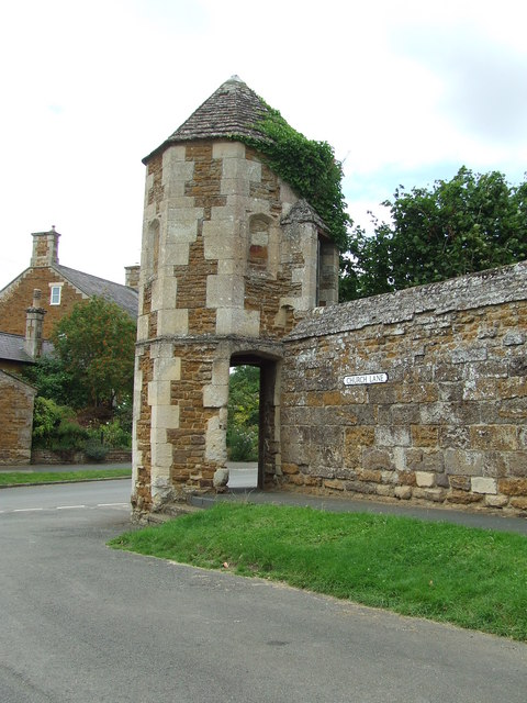 Church Lane Church Lane Lyddington, Rutland.